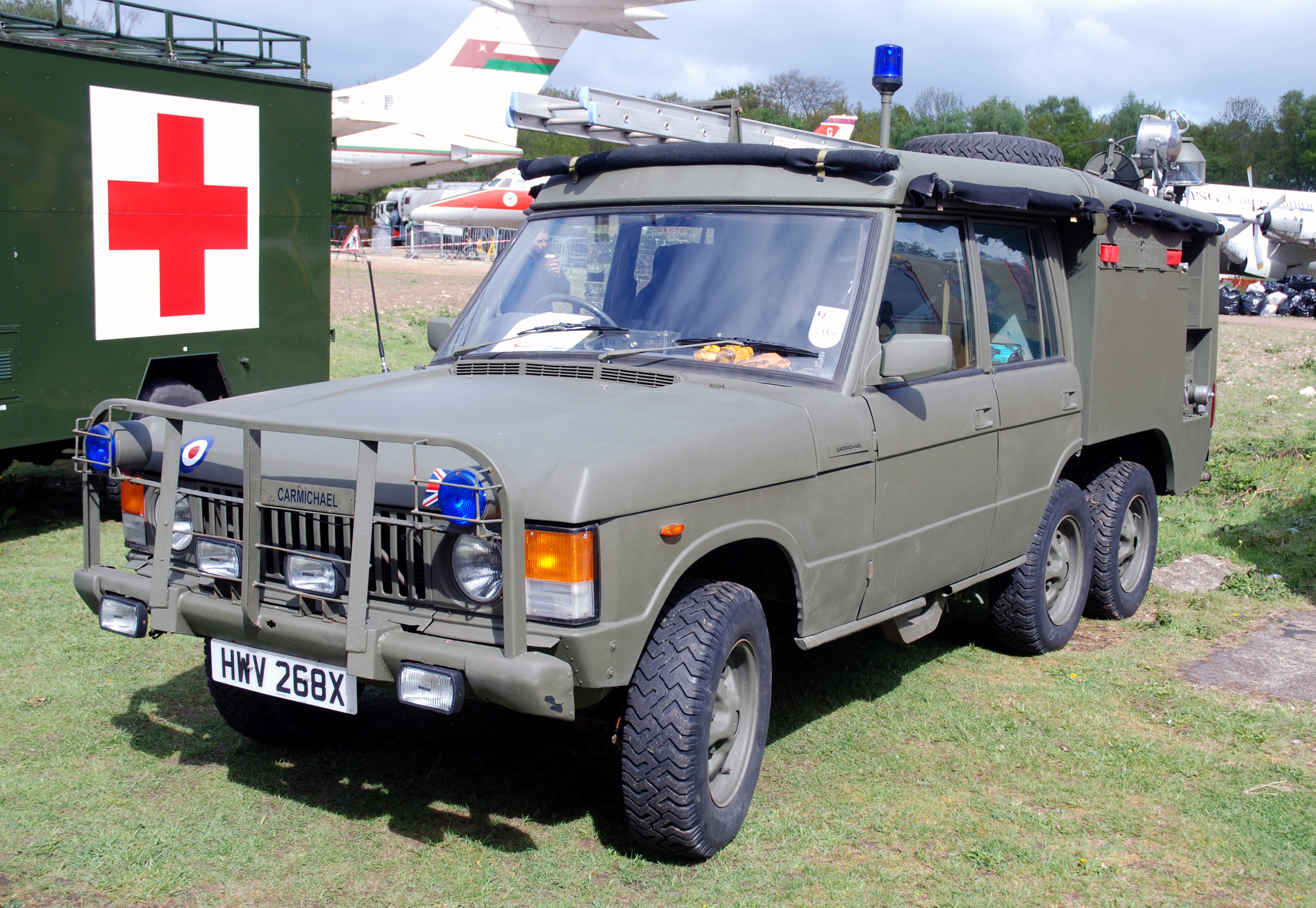 Brooklands,3rd May 2010